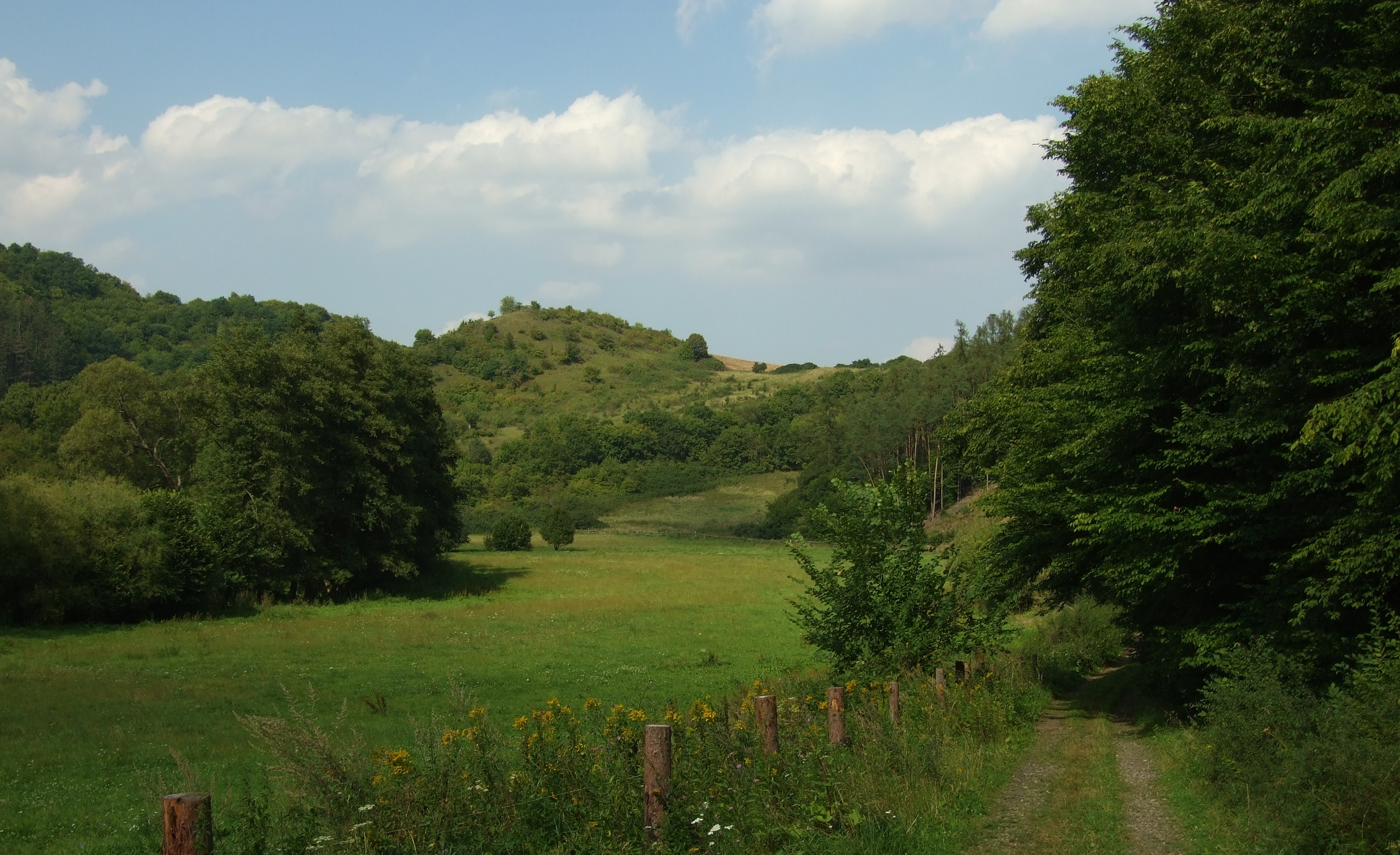 CHKO Křivoklátsko protected landscape area near villages of Hudlice, Nižbor and Žloukovice in Central Bohemian region, CZhelp